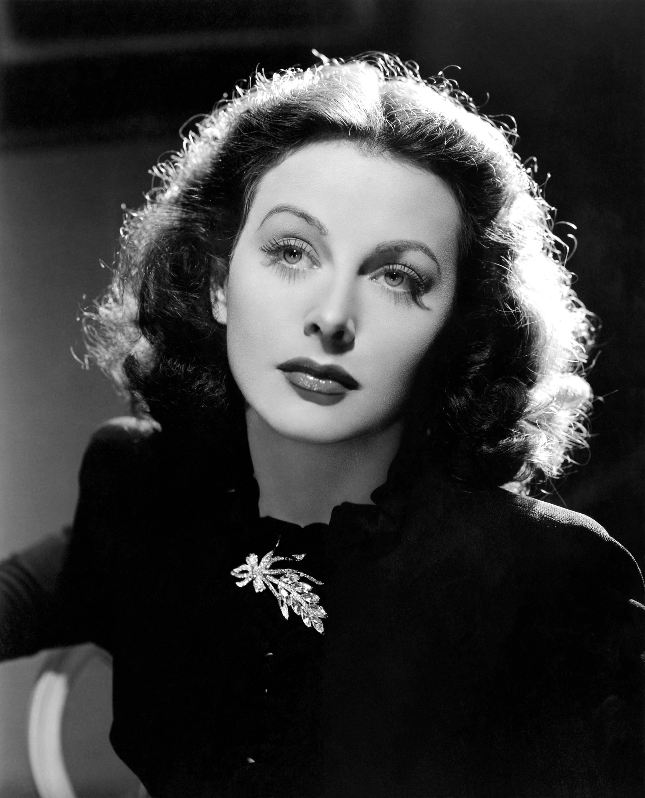 Hedy Lamarr in "The Heavenly Body". Move of MGM (1944)